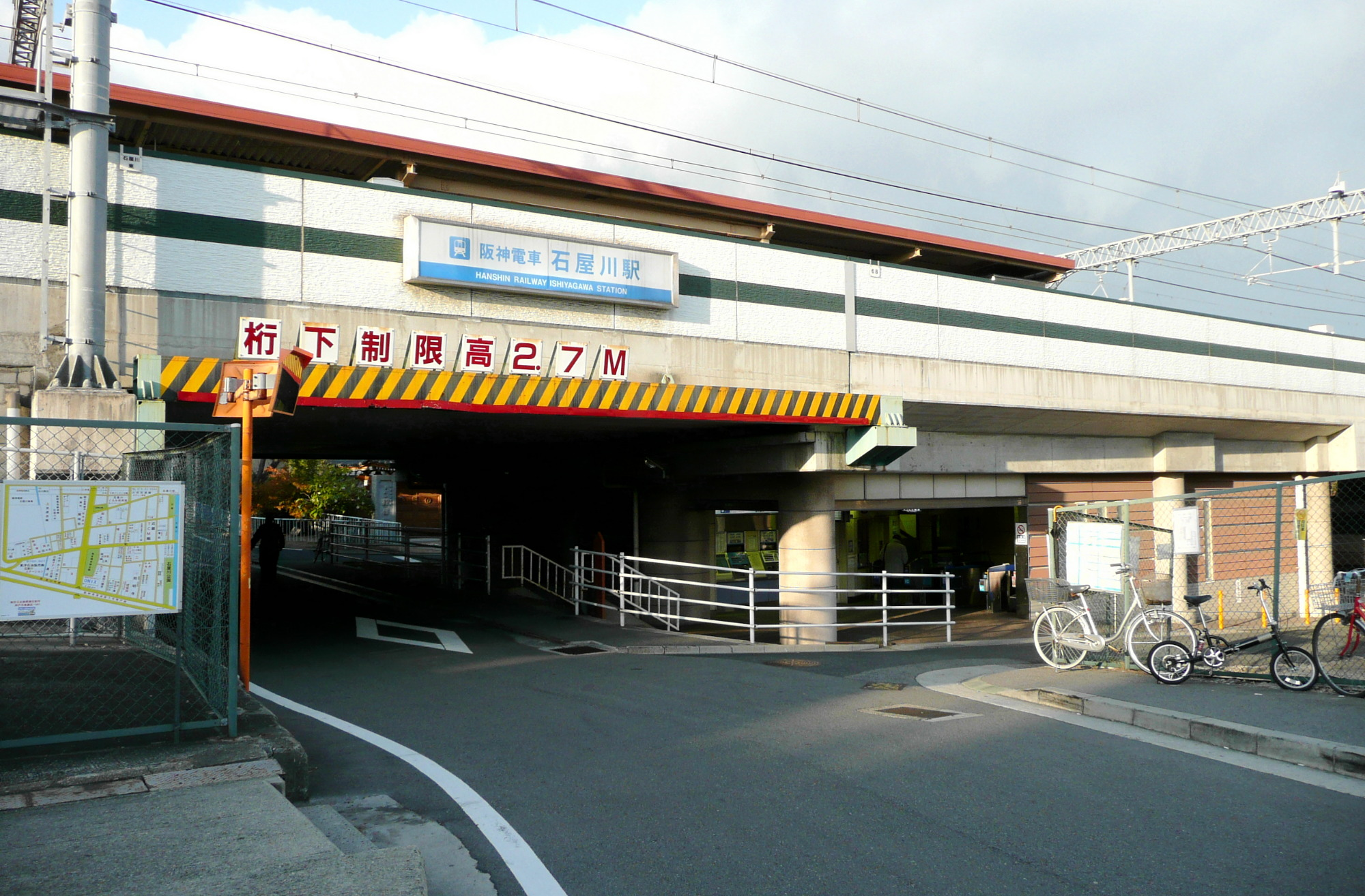 Hanshin Electric Railway,Main Line,Ishiyagawa Station. /阪神本線石屋川駅